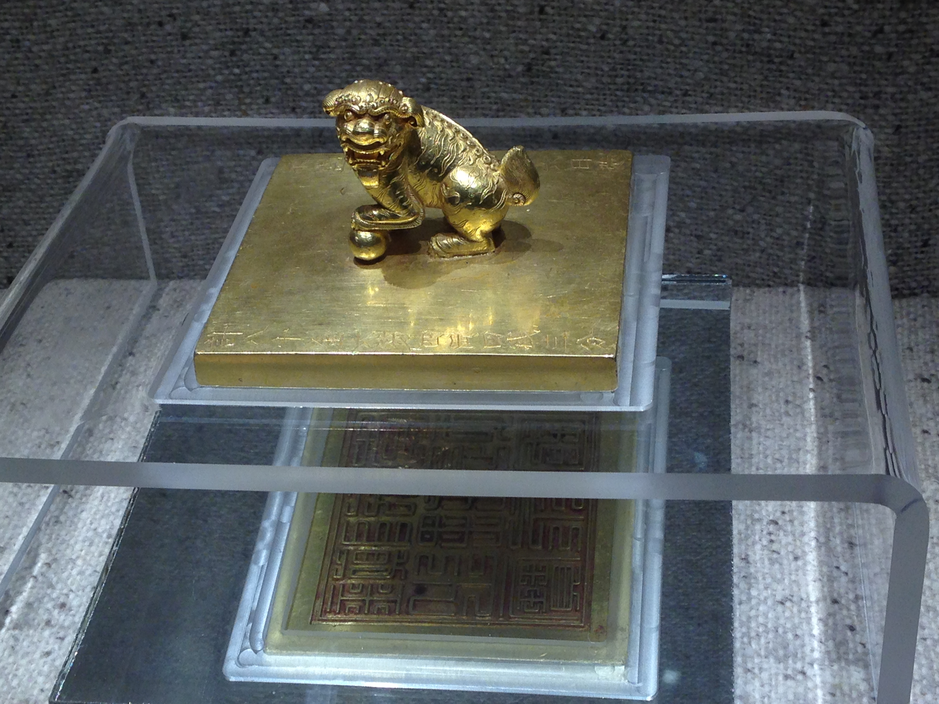 Golden seal "The treasure for the eternity guard of the Nguyễn Lords, Great Việt state", 1709, 10.84×10.84×6,3cm Viet Nam National Treasure